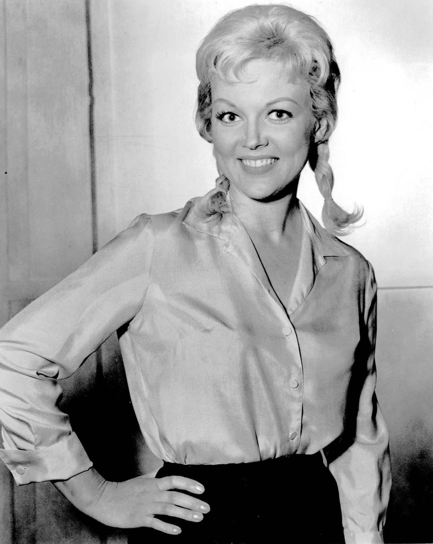 Photo of Cynthia Lynn as Fräulein Helga from the television program Hogan's Heroes.